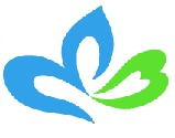 Yamagata Gifu chapter